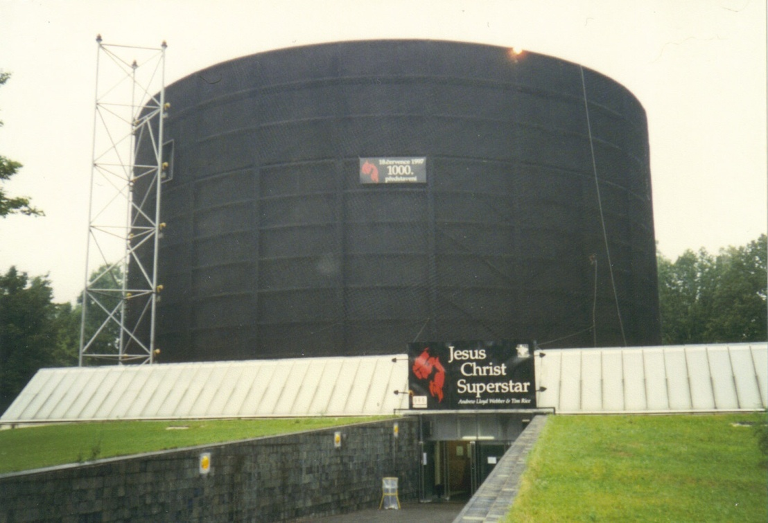 Spirala theatre, July 1997